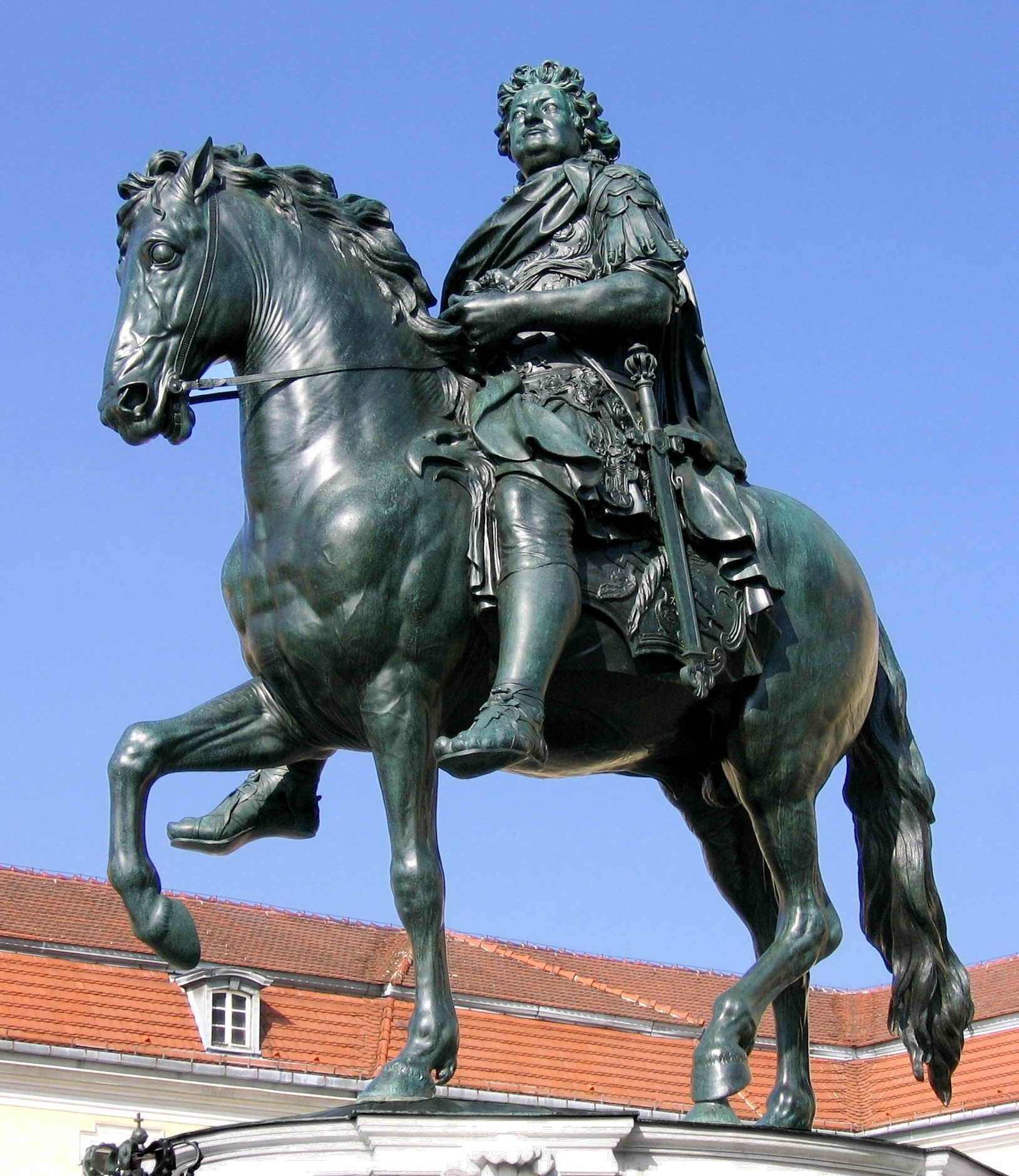 Equestrian statue of elector Friedrich Wilhelm I. in front of Charlottenburg Palace in Berlin. Sculptor: Andreas Schlüter.